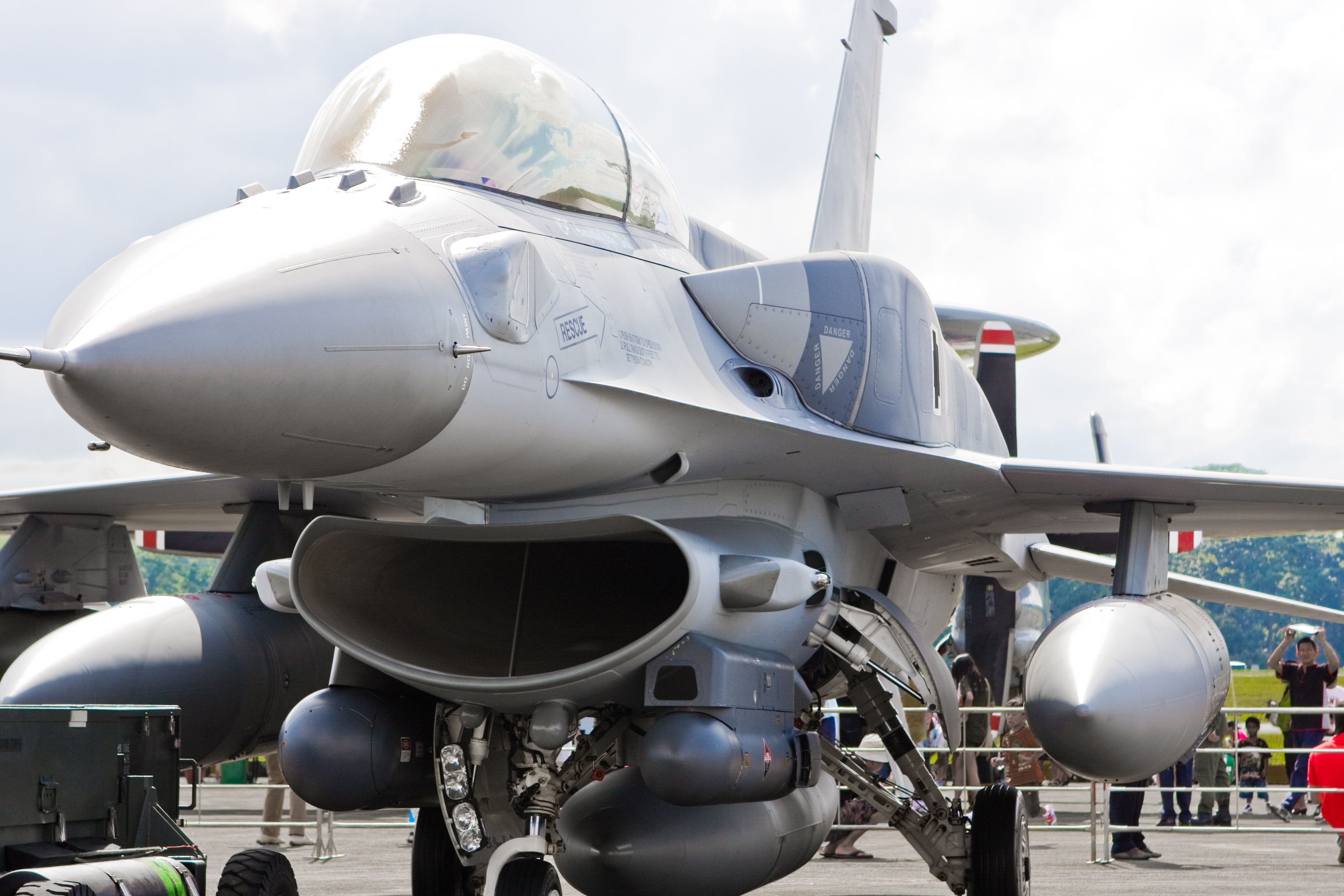 Latest RSAF F-16D Block 52+ Fighting Falcon with Conformal Fuel Tanks and LANTIRN (Low Altitude Navigation and Targeting Infra-red system for Night) Pods